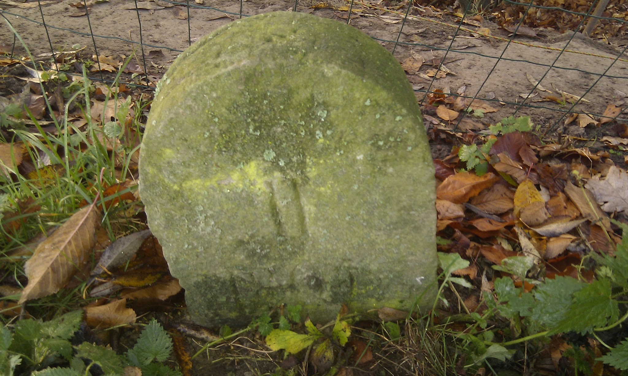 Boundary stone at former border between Kingdom of Prussia and Kingdom of Hanover in Rödinghausen, District of Herford, North Rhine-Westphalia, Germany.